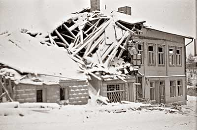 Building in Vapaudenkatu, Jyväskylä destroyed in bombing on 31 December 1939 during Winter War